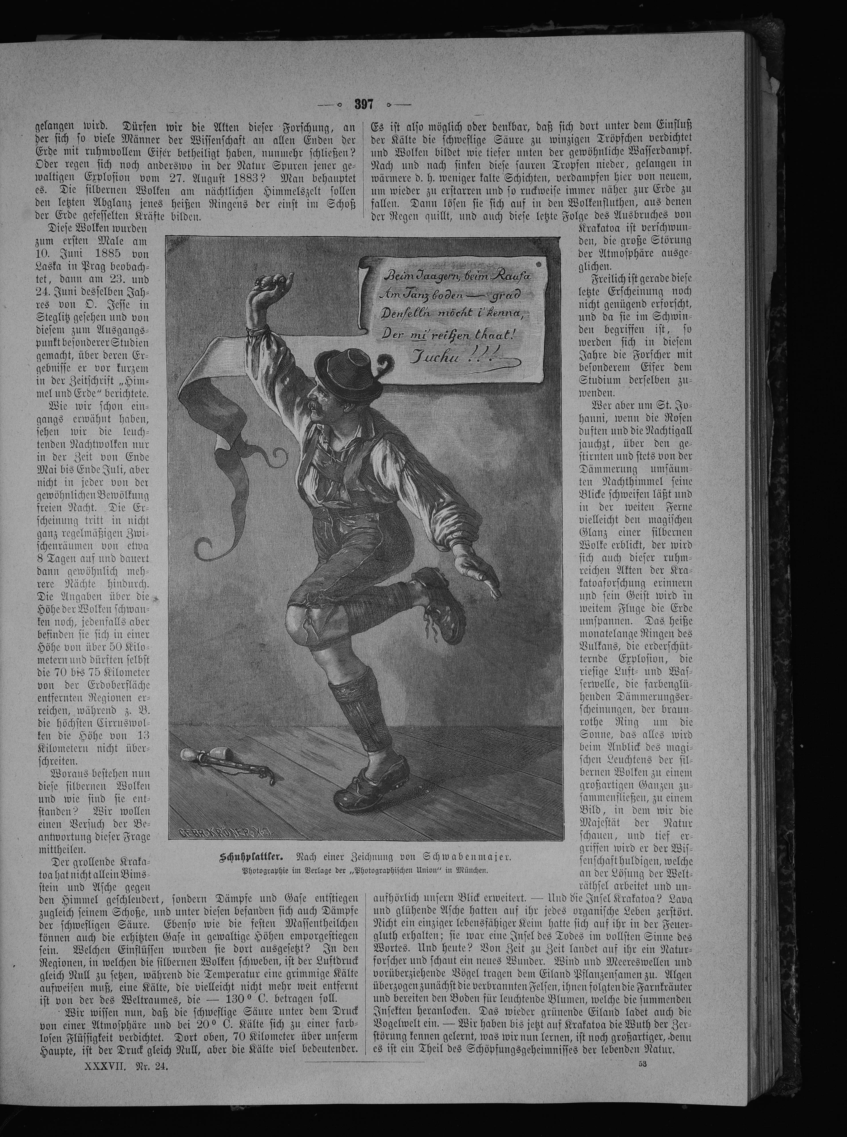 Page 397 from journal Die Gartenlaube for 1889. Extracted image (if any): File:Die Gartenlaube (1889) b 397.jpg - hi res, ~2.5 MB.